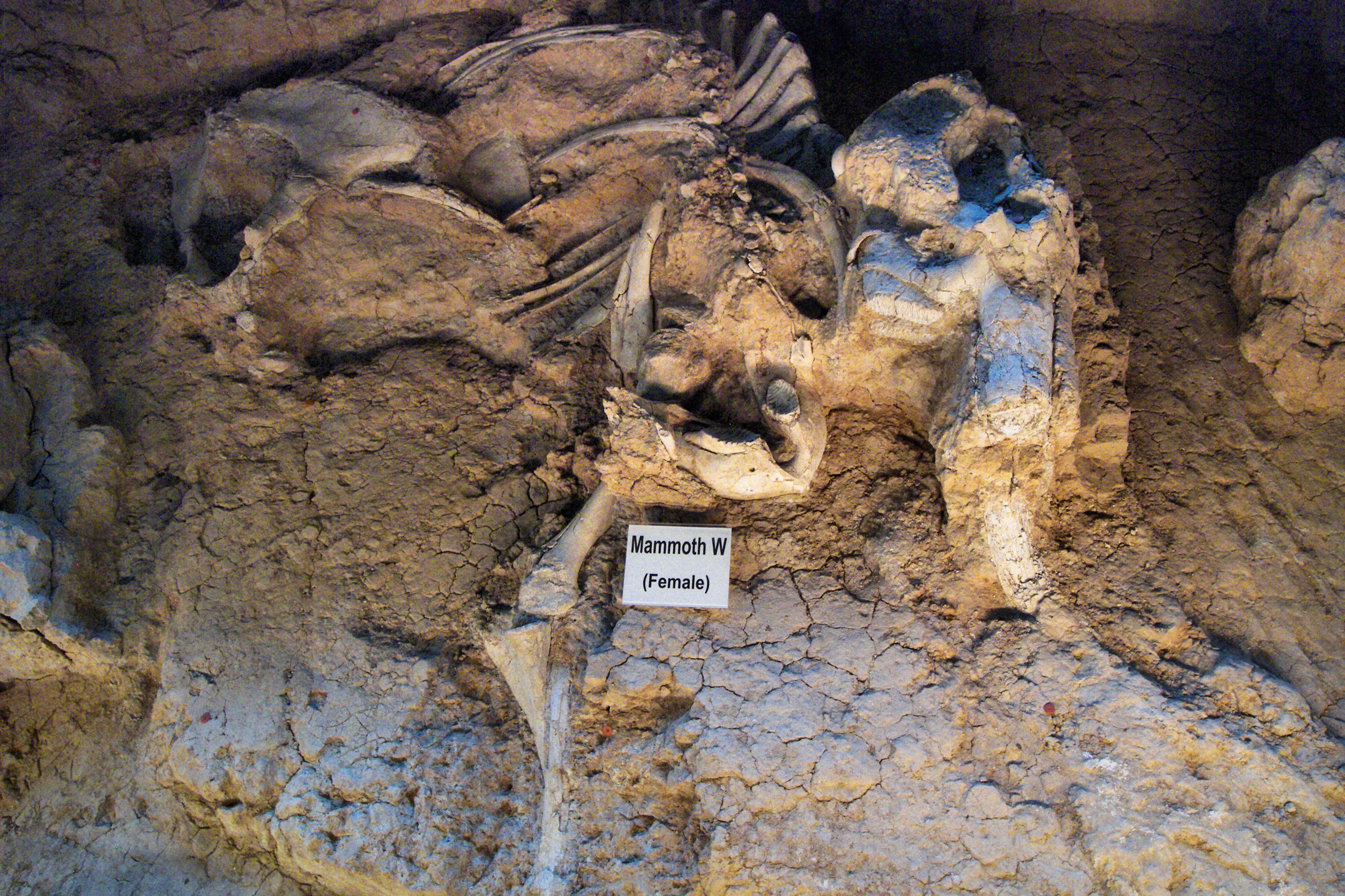 Mammoth remains at the Waco Mammoth National Monument. Mammoth W is a female mammoth buried 53,000 years ago.